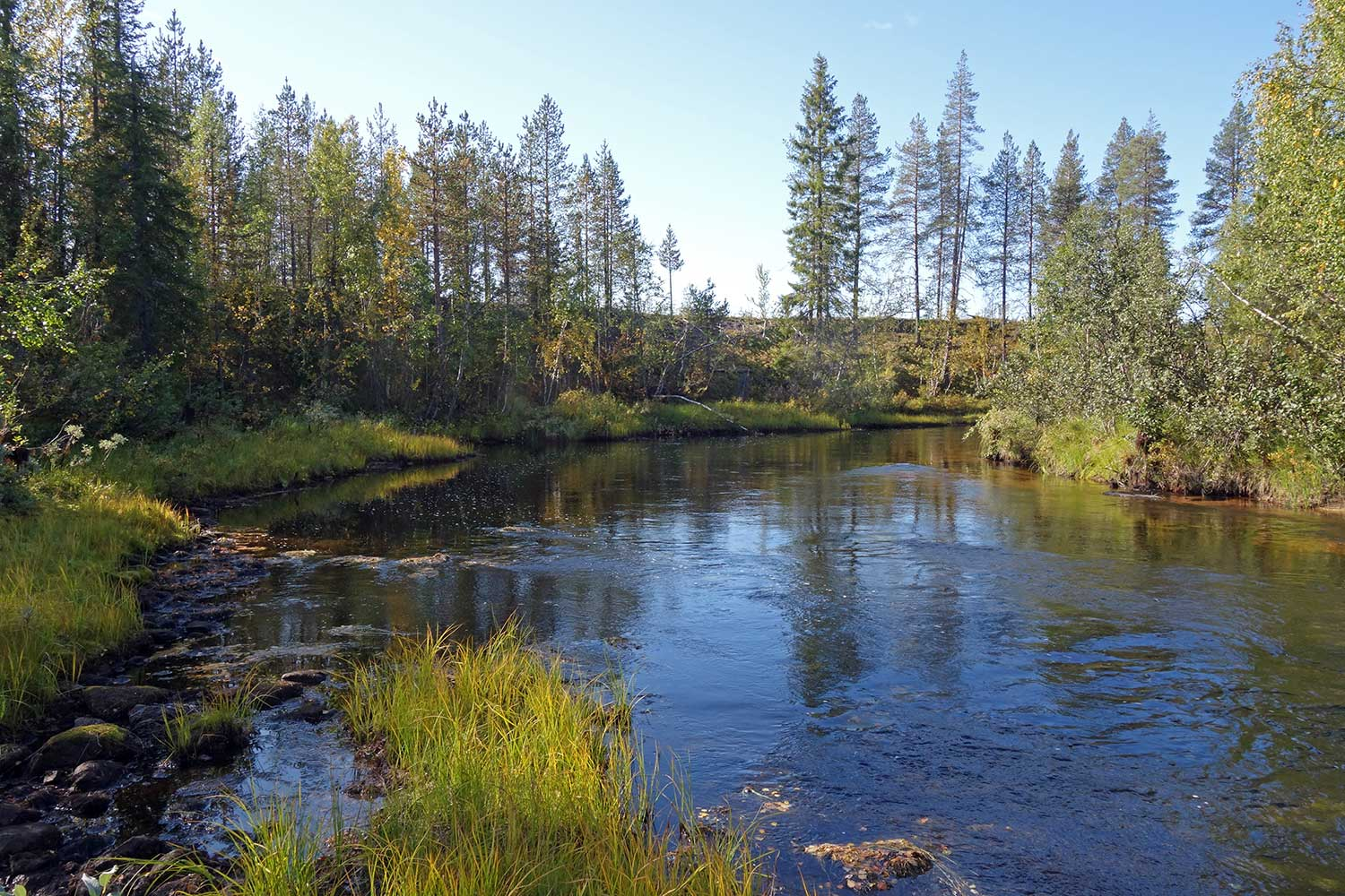 Olosjoki, a tributary to the river Lainioälven. This is the lower part in Pajala Municipality.